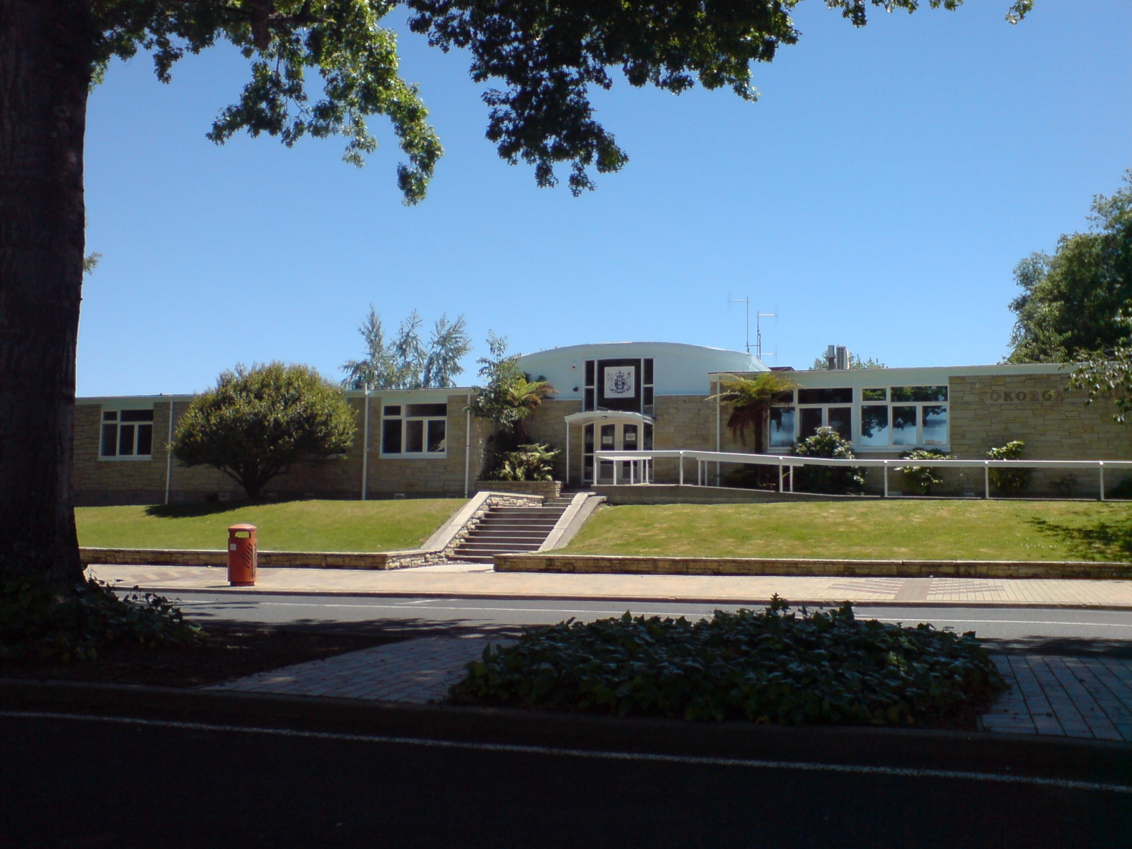 The local courthouse in Tokoroa, Region of Waikato, New Zealand.